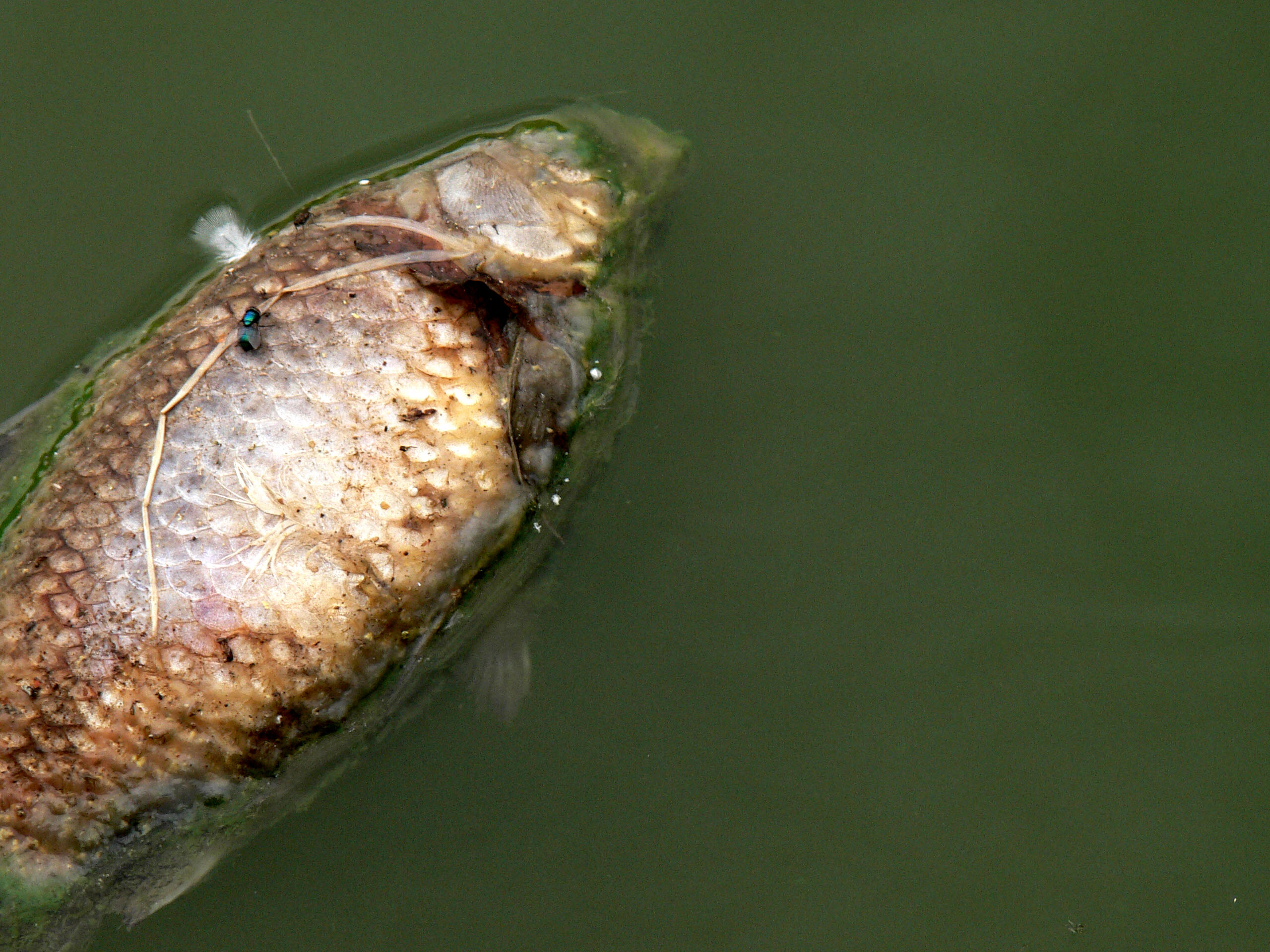 Bloom of cyanobacteria ("blue-green algae"). traces shaped streaks are traces of fish and ducks that run on water, "breaking" the biofilm. The samples emit a strong odor of algae (spirulina type). Location: "Quai du Wault" in Lille, not far from downtown (north of France; Location vai google maps: 50.637485,3.05425)